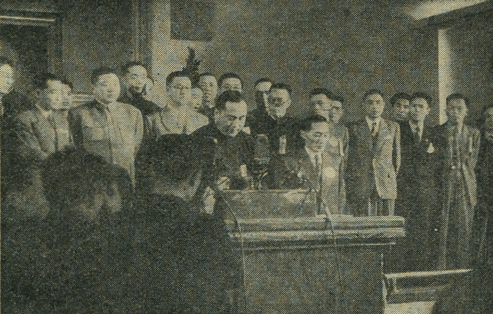 1946 copyright expired